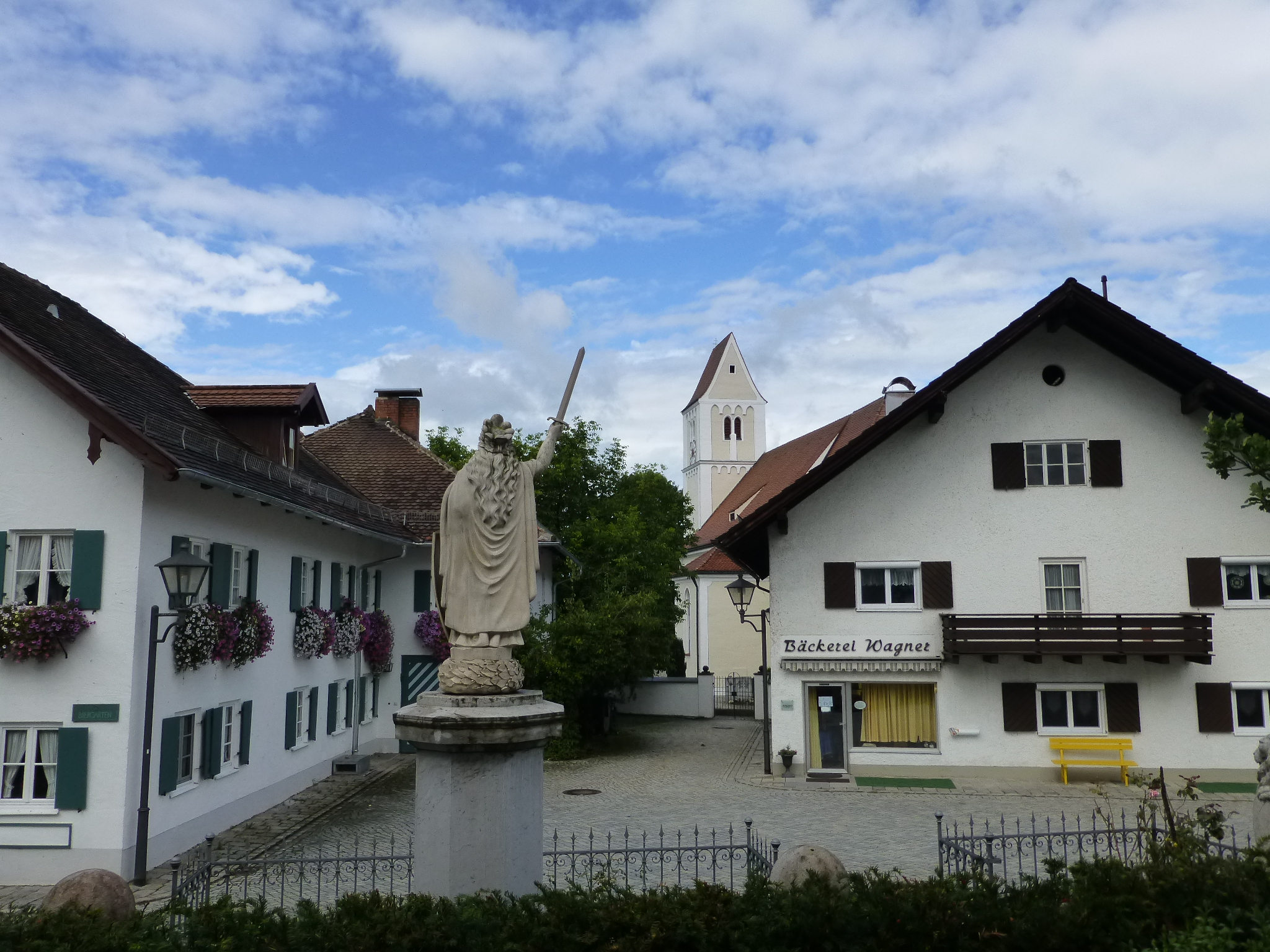 Village of Apfeldorf, on the Lech river, Upper Bavaria. Monument and church.